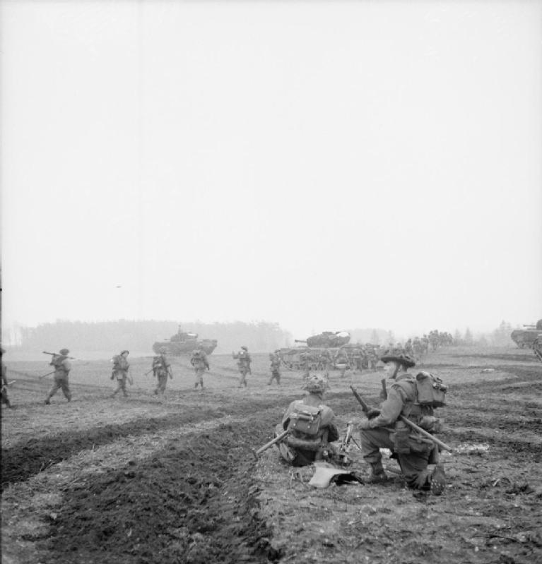 The British Army in North-west Europe 1944-45 Churchill tanks supporting infantry of the 2nd Argyll and Sutherland Highlanders during Operation 'Veritable', 8 February 1945.